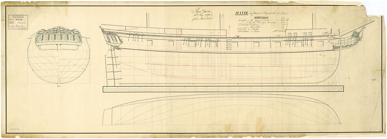 HAVICK FL.1796 [DUTCH] lines & profile